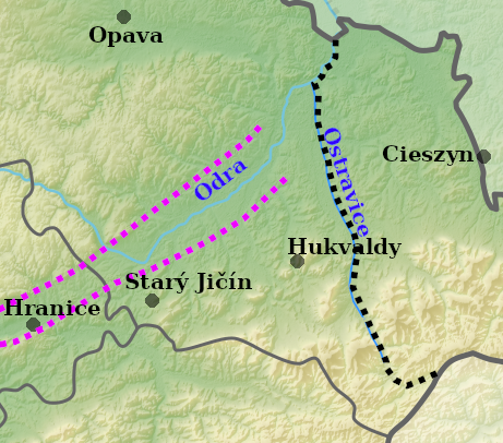 North eastern Moravia between Hranice and Ostravice; pink dotted line - Moravian Gate; black dotted line - historical border between Silesia (Diocese of Wrocław) and Moravia (Diocese of Olomouc) as it was ratified in the 13th century, before the existence of the Duchy of Opava/Troppau; background map: File:Eastern Moravia relief map.png